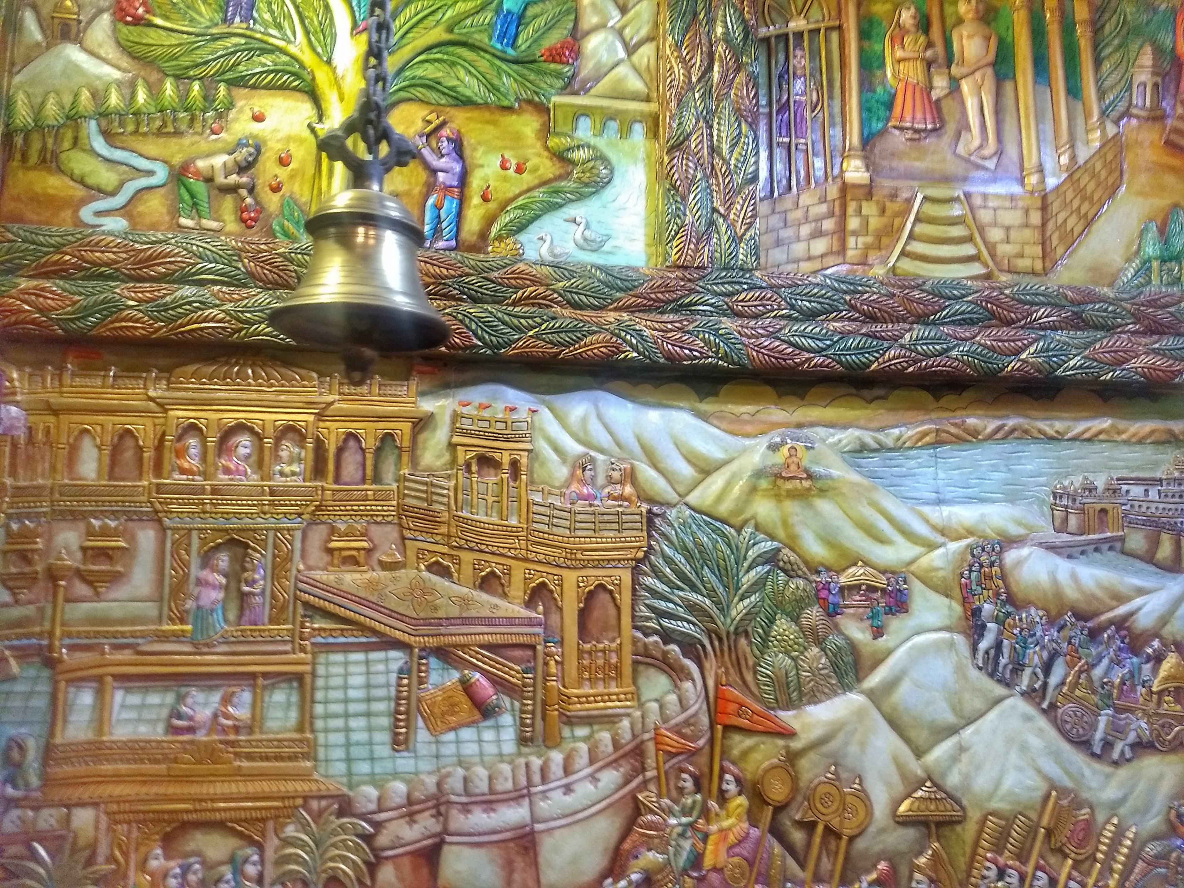 Shri Padmavati Purwal Digamber Jain Mandir, Chandni Chowk